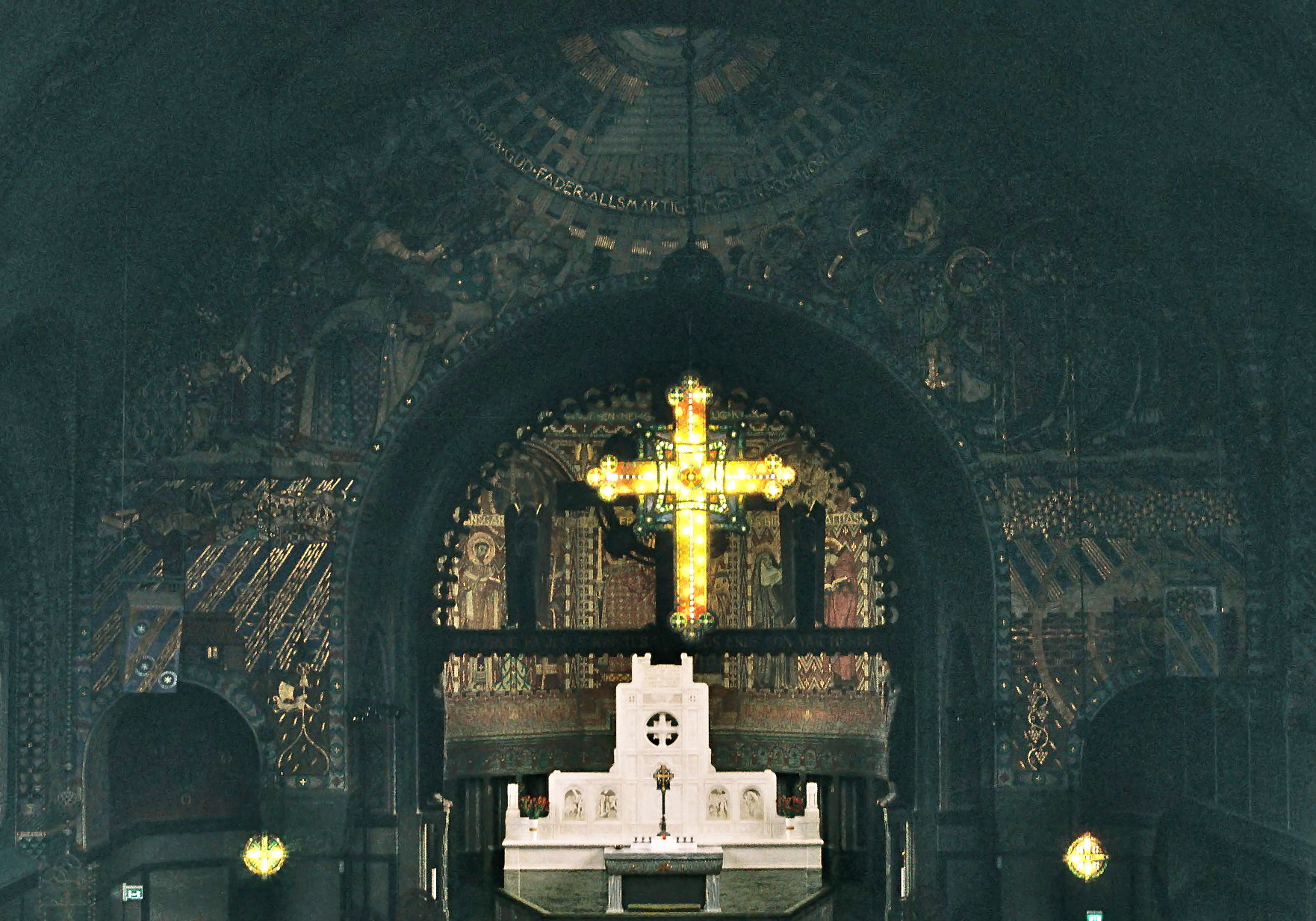 Uppenbarelsekyrkan